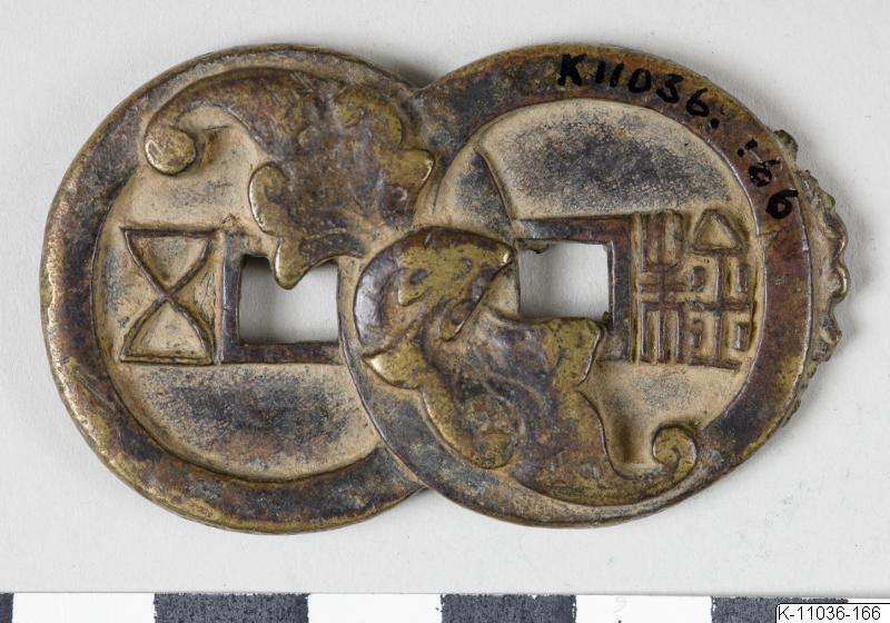 Some Chinese numismatic charms contain visual puns such as a Gourd charm that is composed of two replicas of Wu Zhu cash coins with a bat placed to obscure the characters that are nearest to each other, the Chinese word for bat sounds similar to that of "happiness", the square hole in the centre of a cash coin is referred to as an "eye" (眼, yǎn), and as the Chinese word for "coin" (錢, qián) has almost the same pronunciation as "before" (前, qián). For this reason this charm could be interpreted as "happiness is before your eyes".